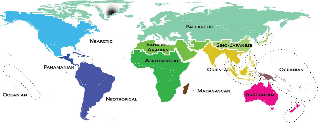 New map with 11 biogeographics regions.